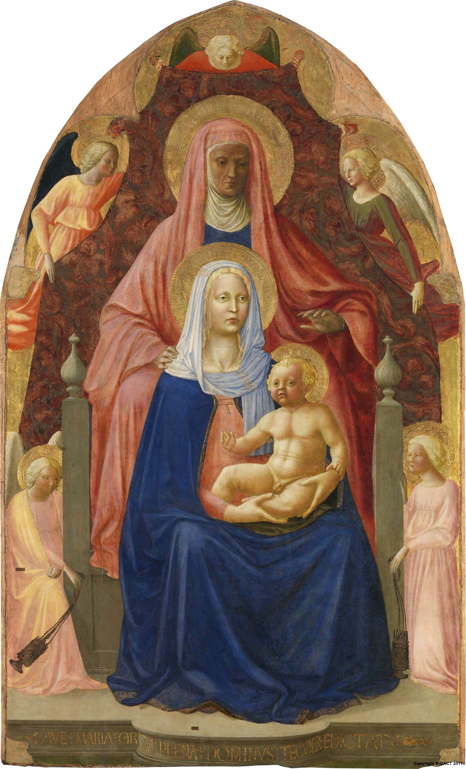 Madonna and Child with St. Anna.